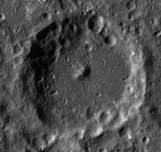 Part of the chart LAC-114